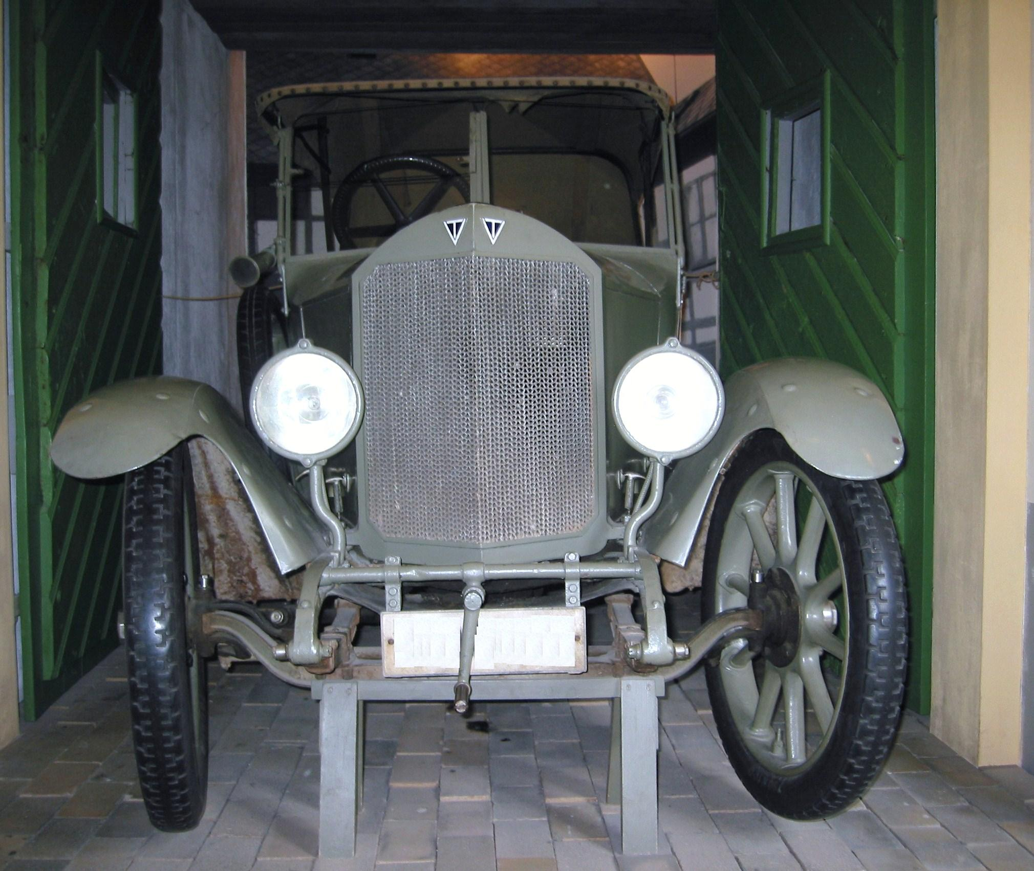 Thulin 1921